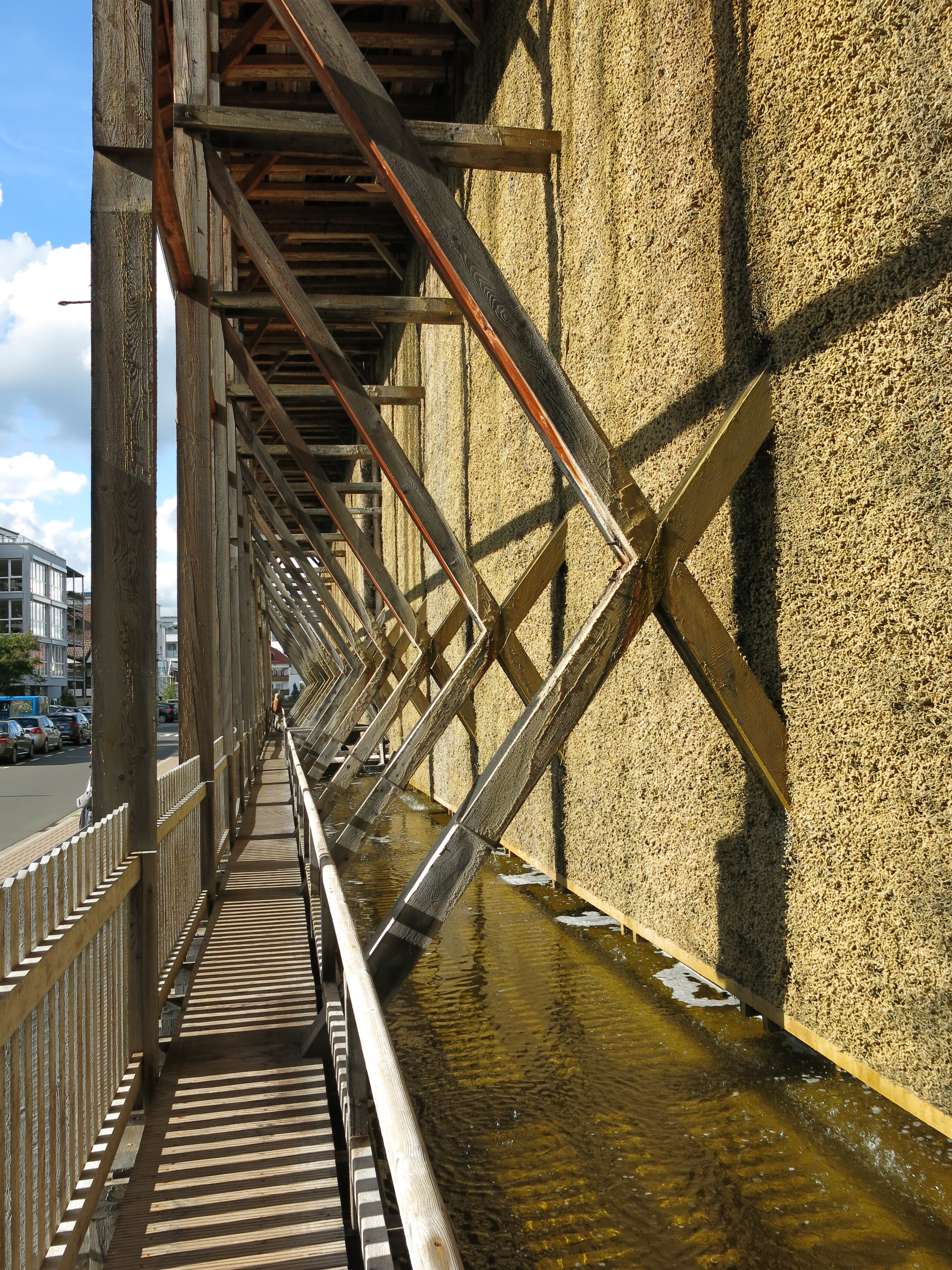 Graduation tower in Bad Orb